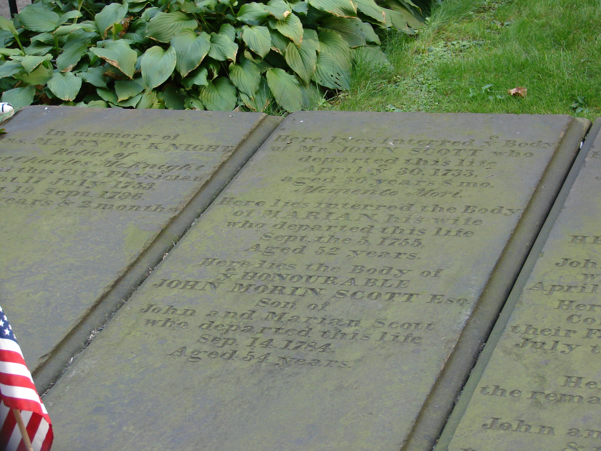 This photo is of Wikis Take Manhattan goal code G15, John Morin Scott.